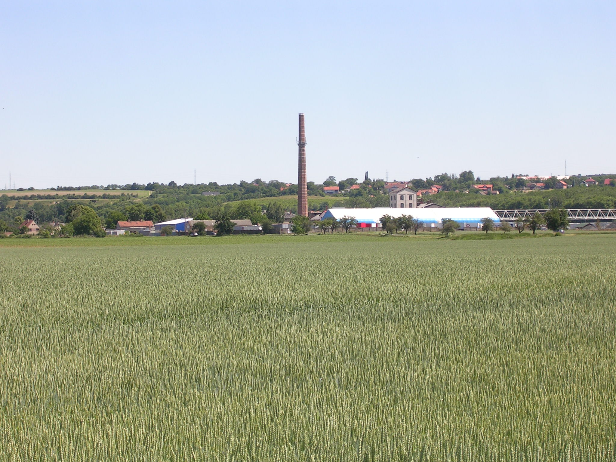 Dolní Beřkovice, Mělník District, the Czech Republic. - Google Maps - Google Earth